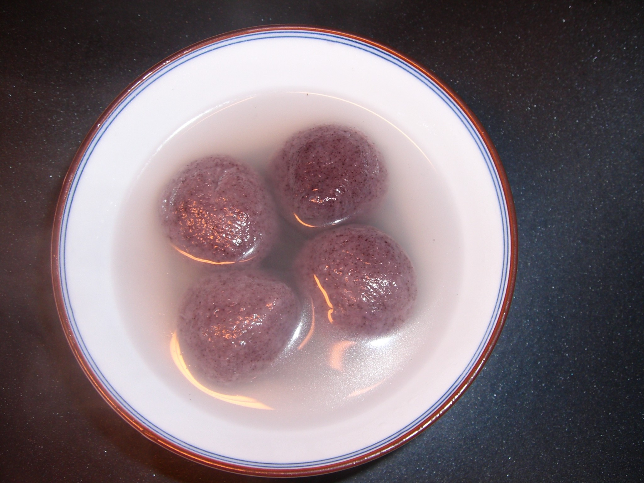 Fancy tangyuans (湯圓) or yuanxiaos (元宵) made from "black" glutinous rice (紫米). Own work.